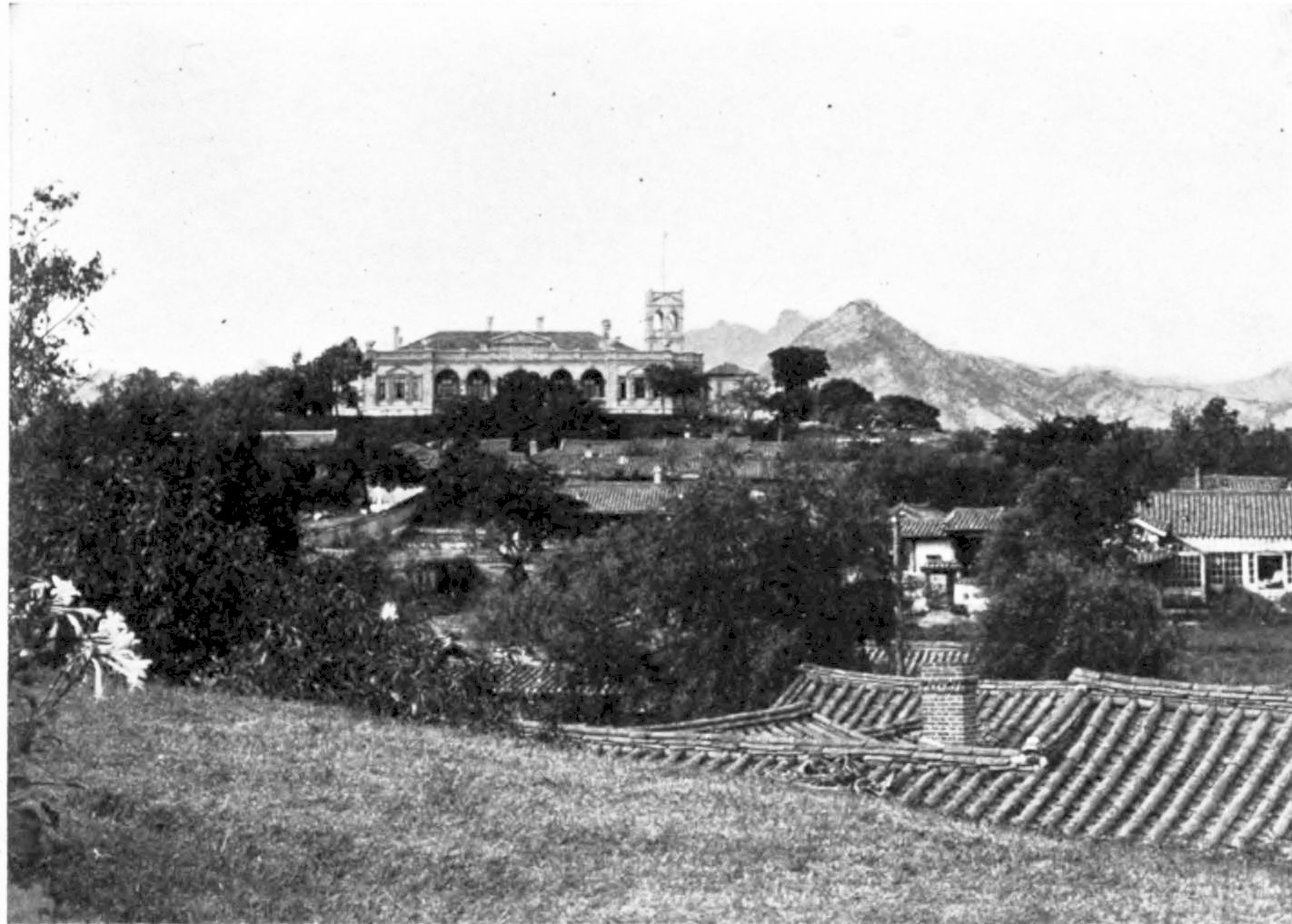 Russian legation to Korea, c.1900; p.197 The passing of Korea (book)